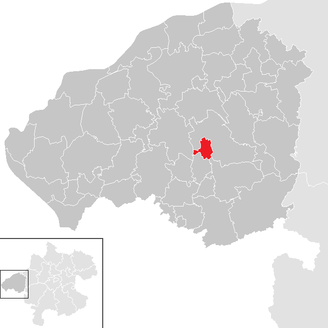 district Braunau am Inn